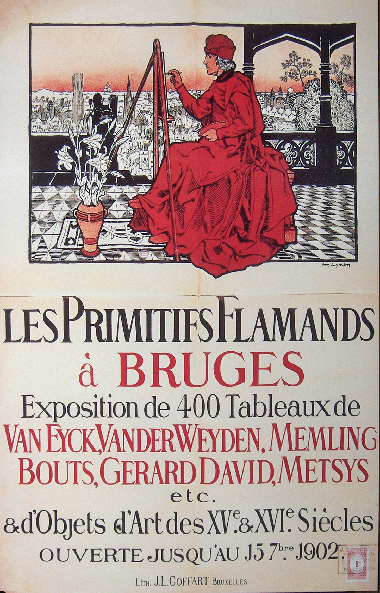 "Les Primitifs Flamands à Bruges" (1902), poster of an exhibition by Amedée Lynen (1852-1938)